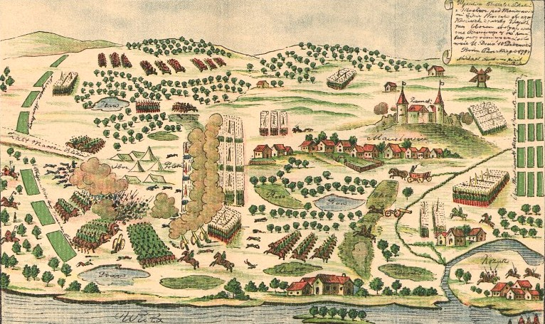 Battle of Maciejowice